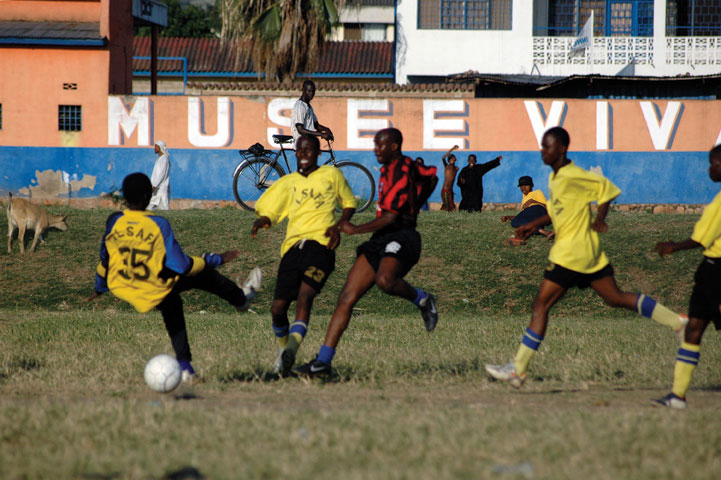 A Sunday afternoon football match takes place in Bujumbura, Burundi. The government has instituted a law that forbids any Burundians from participating in any activity before 10 am on a Saturday morning that does not contribute to communial good. Street cleaning, family events, governmening tasks, etc are all acceptable.